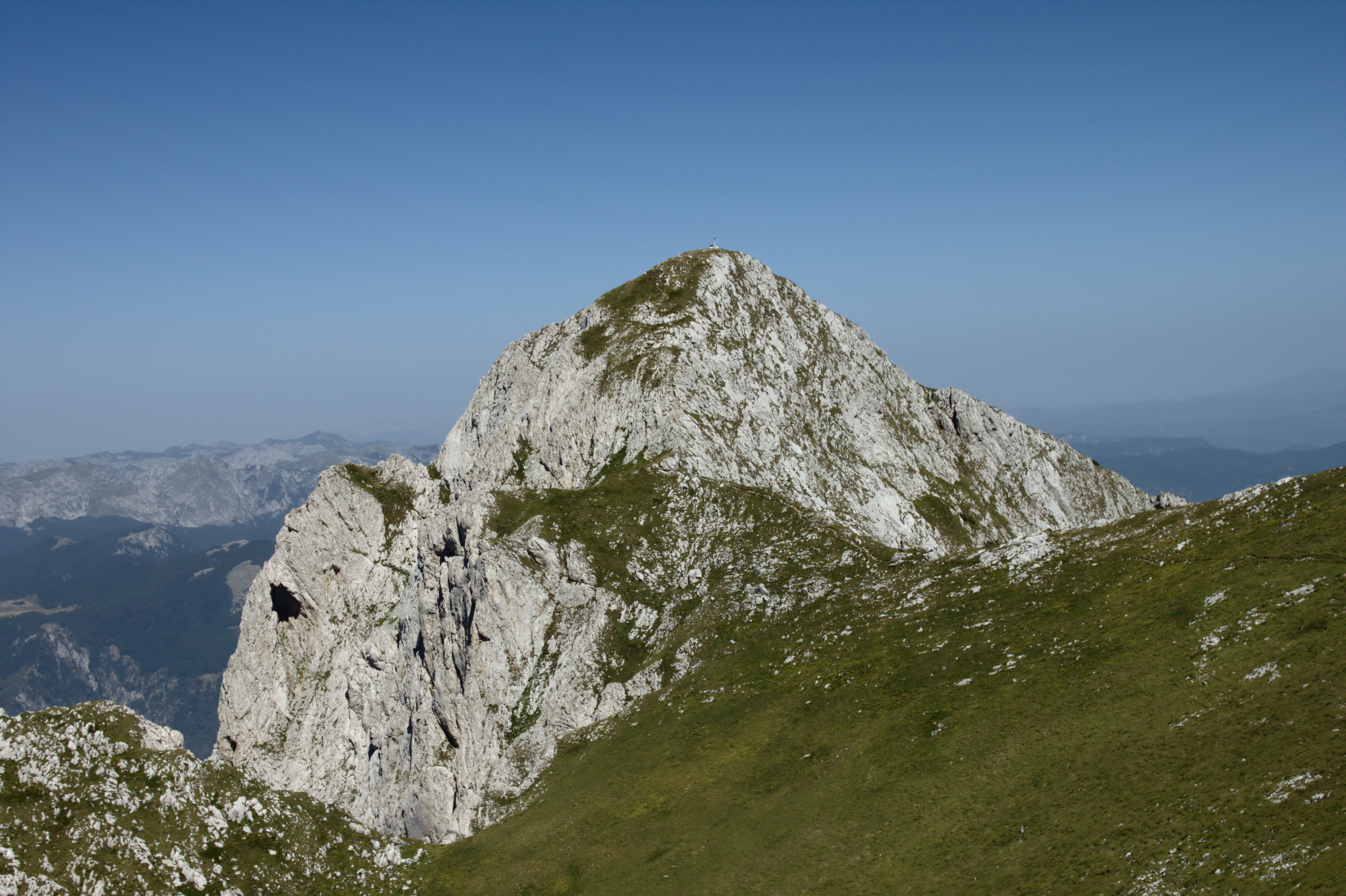 Top of the Maglić hill in Bosnia and Herzegovina